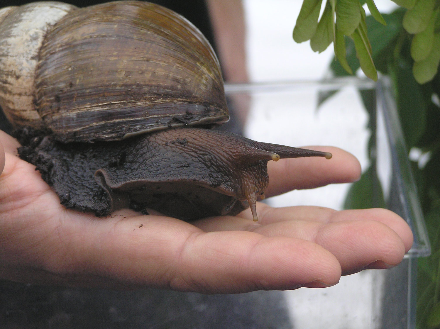 Achatina – giant africant snail. The biggest land snail.